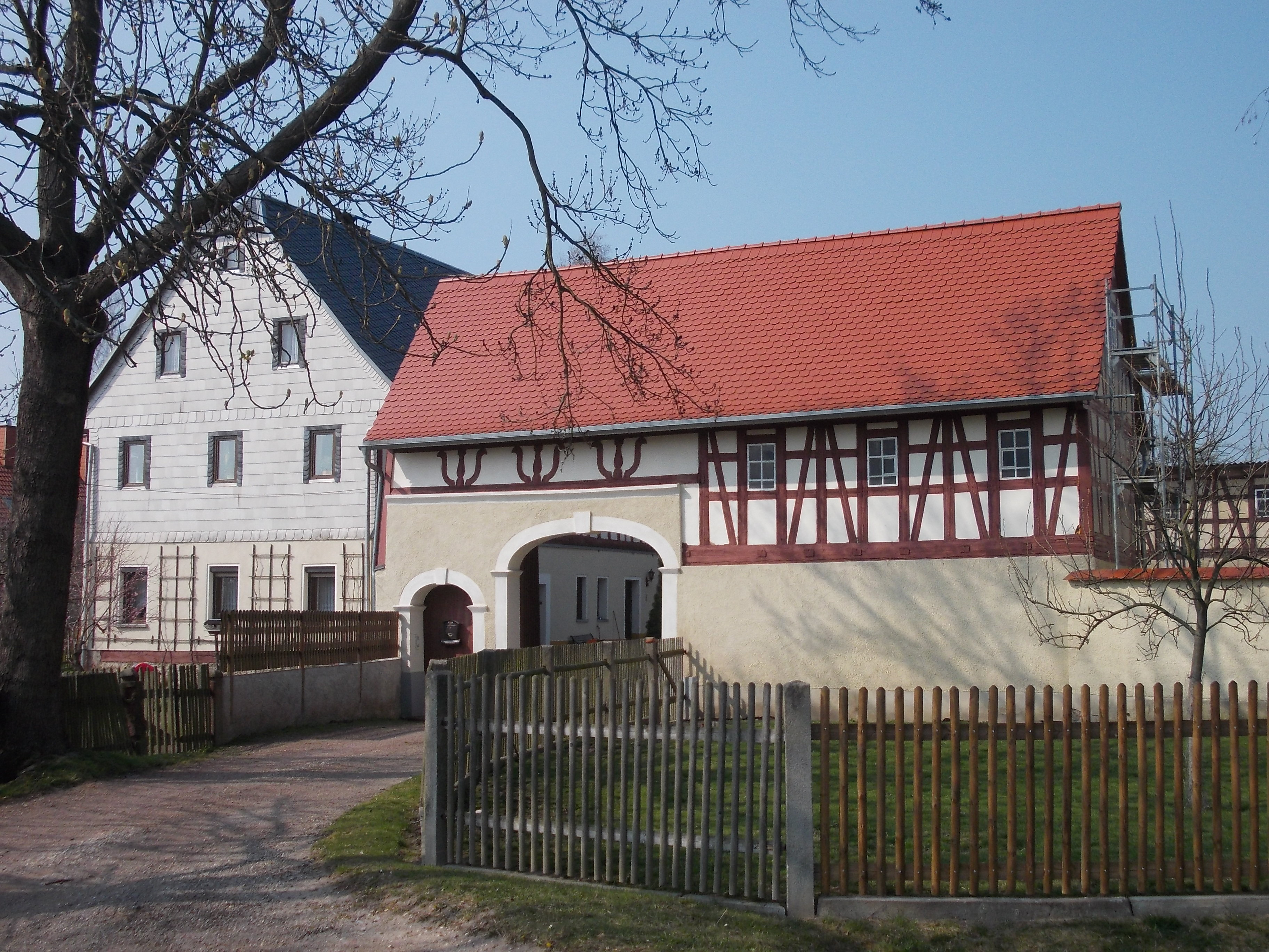 Farmstead in Oberdorf (Schönberg, Zwickau district, Saxony)